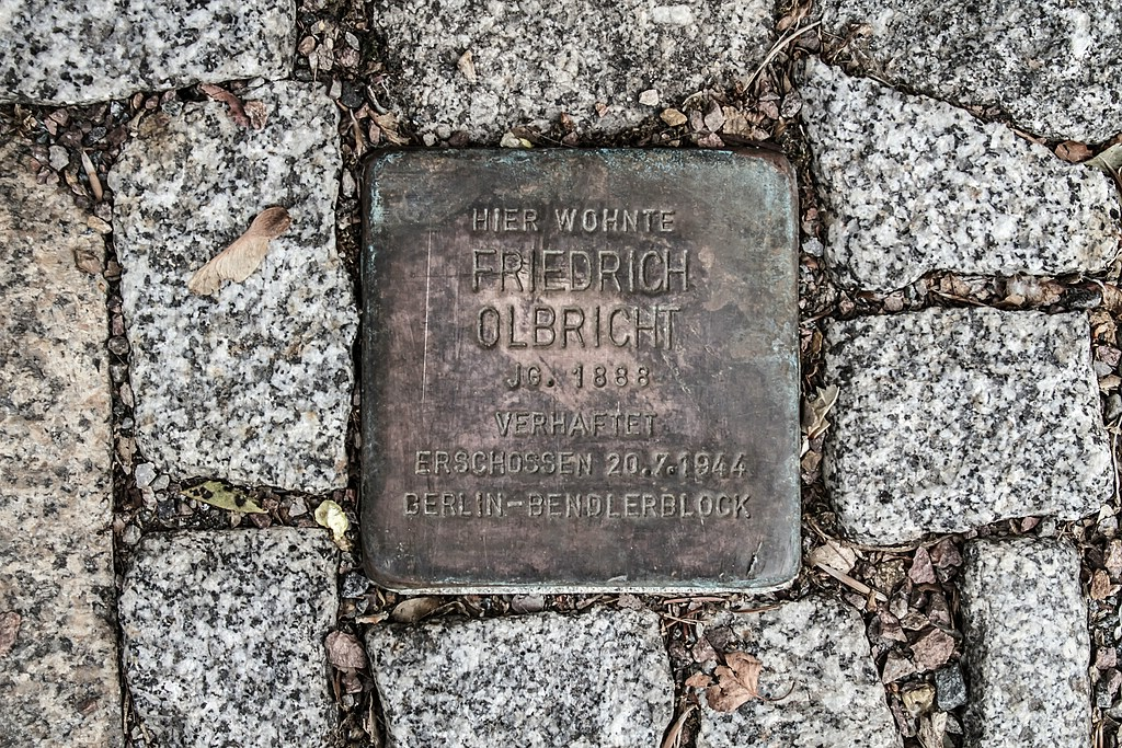 Chemnitz-Kaßberg, sidewalk Wielandstraße 6. Memorial for Friedrich Olbricht: «Here Friedrich Olbricht lived. Born in 1888. Arrested. 20.7.1944 shot. Berlin Bendlerblock» Note: The house in the grounds Wielandstraße 6 no longer exists. It was burnt by an Allied bombing in World War II.